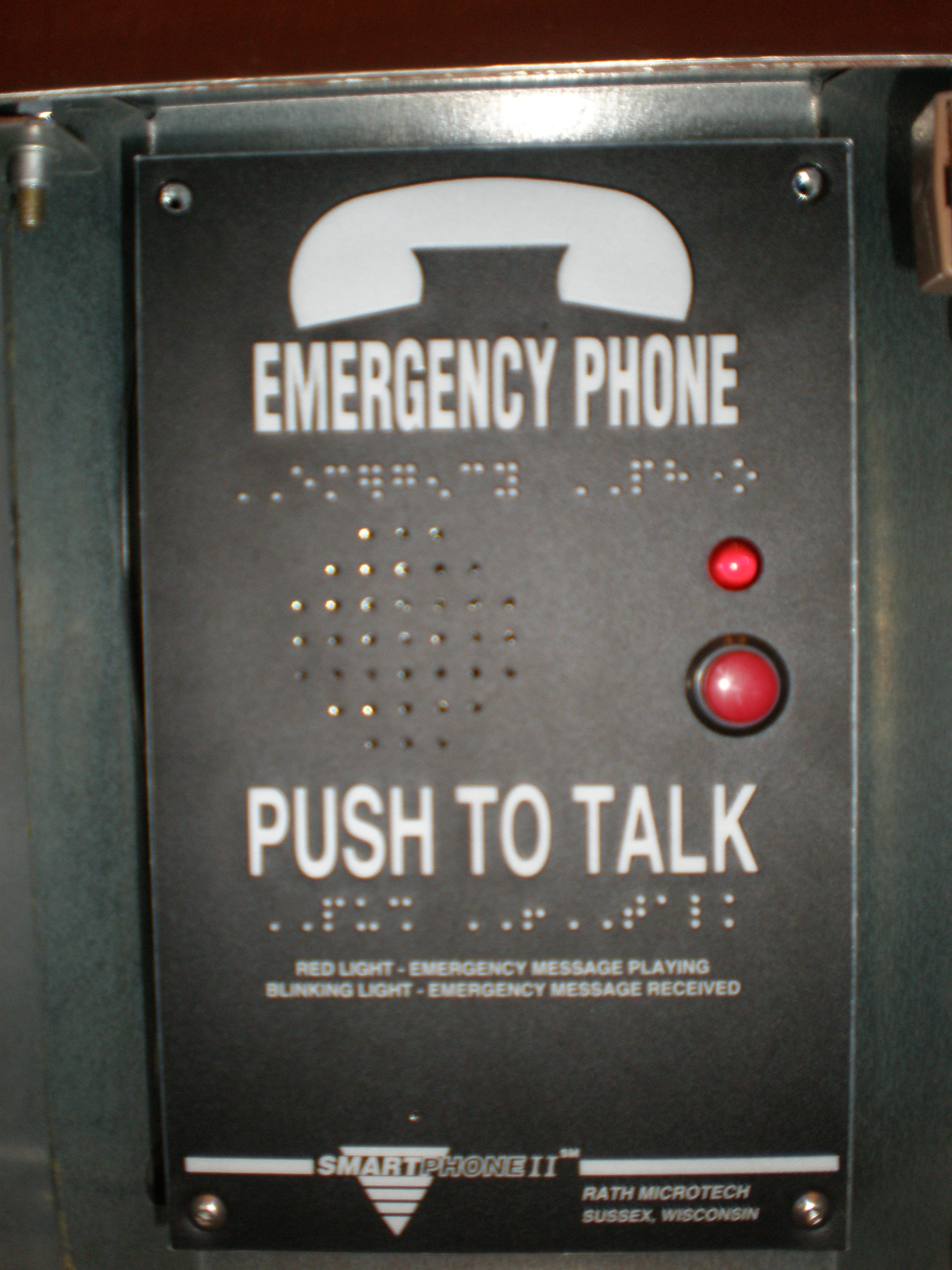 A SmartPhone II emergency phone found in an elevator of an office building in Palo Alto, California.